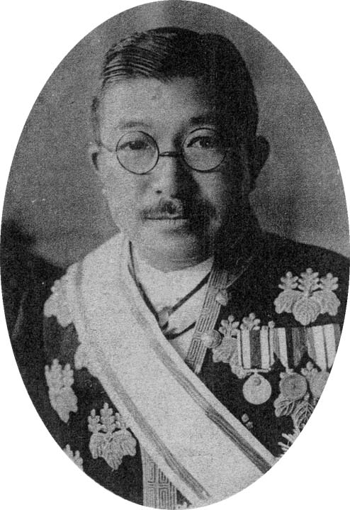 Mr. Ichirō Hatoyama.